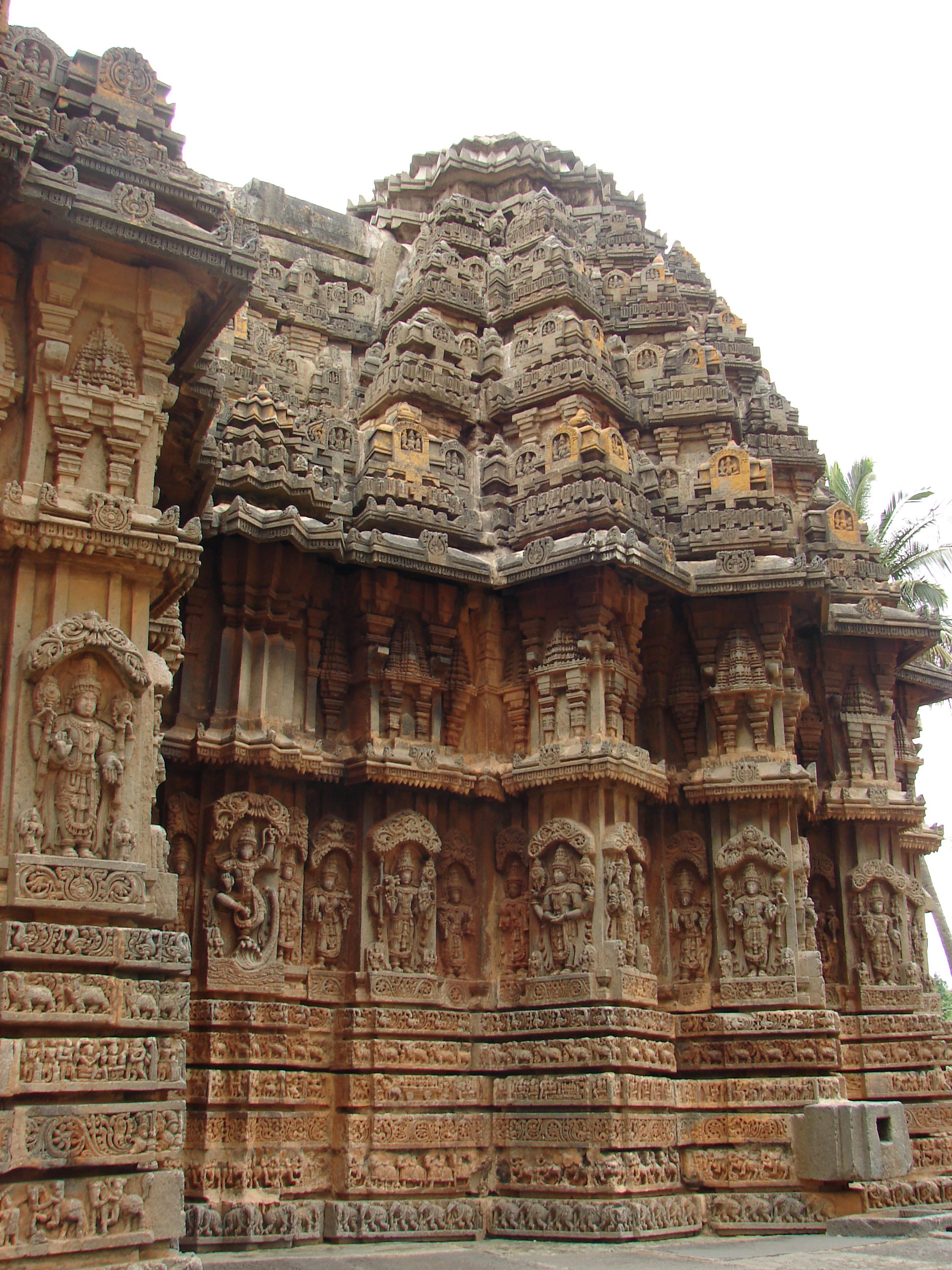 This photograph was taken by me at Aralaguppe in Tumkur district, Karnataka state, India. The Chennakeshava temple, a fine example of Hoysala architecture, was built during the reign of Hoysala King Vira Someshwara in 1250 AD.